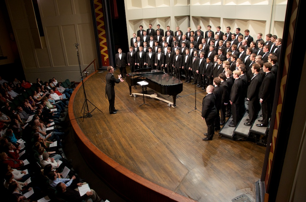 The Miami University Men's Glee Club performing at its Fall Concert in Hall Auditorium, October 2012.